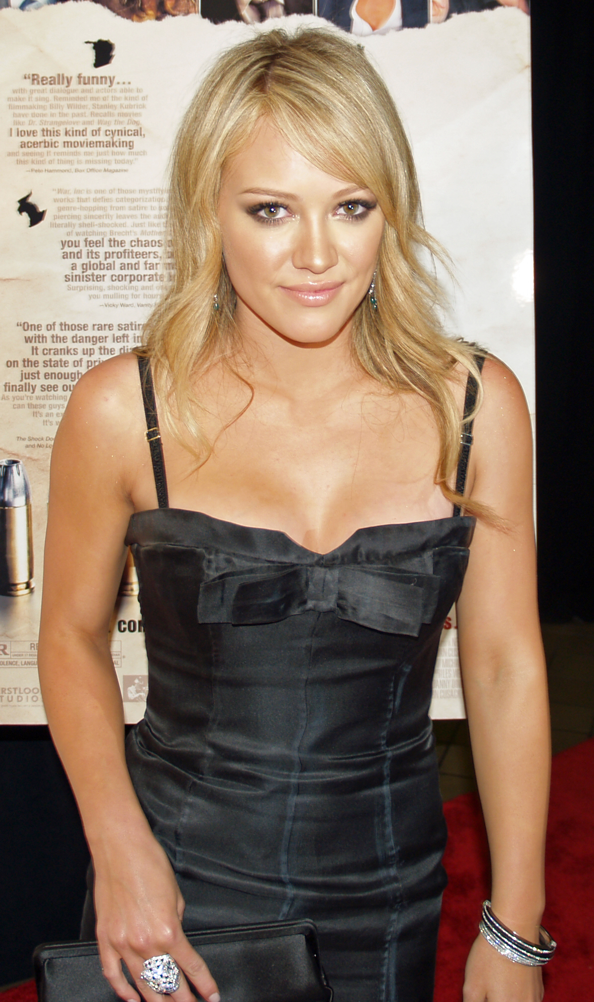 Hilary Duff at the premiere of War, Inc. at the 2008 Tribeca Film Festival.